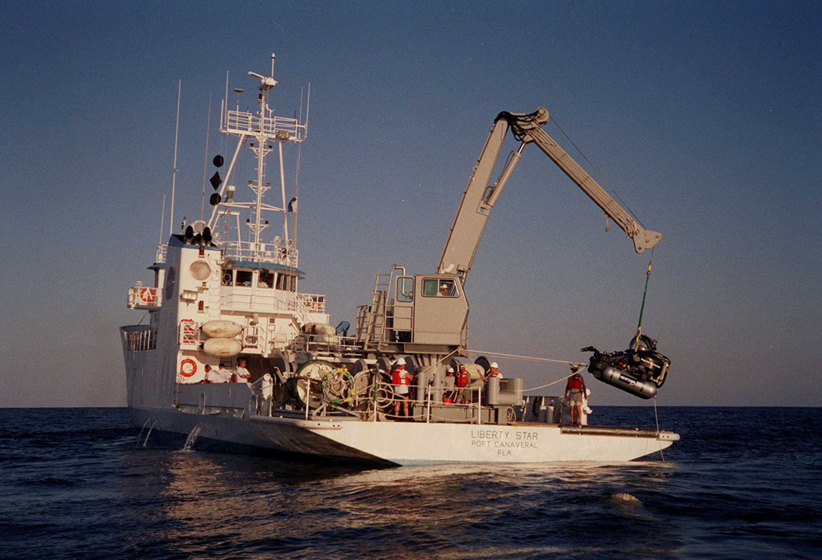 From the deck of Liberty Star, one of two KSC solid rocket booster recovery ships, a crane lowers a one-man submarine into the ocean near Cape Canaveral, Fla. Called DeepWorker 2000, the sub is being tested on its ability to duplicate the sometimes hazardous job United Space Alliance (USA) divers perform to recover the expended boosters in the ocean after a launch. The boosters splash down in an impact area about 140 miles east of Jacksonville and after recovery are towed back to KSC for refurbishment by the specially rigged recovery ships. DeepWorker 2000 will be used in a demonstration during retrieval operations after the upcoming STS-101 launch. The submarine pilot will demonstrate capabilities to cut tangled parachute riser lines using a manipulator arm and attach a Diver Operator Plug to extract water and provide flotation for the booster. DeepWorker 2000 was built by Nuytco Research Ltd., North Vancouver, British Columbia. It is 8.25 feet long, 5.75 feet high, and weighs 3,800 pounds. USA is a prime contractor to NASA for the Space Shuttle program.